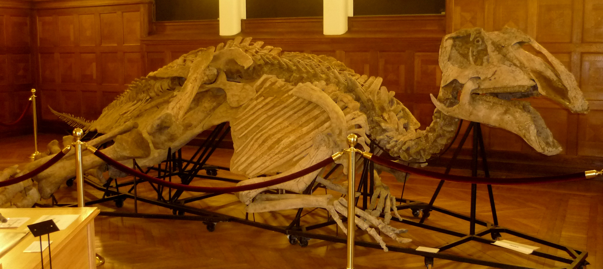 Prosaurolophus maximus, Institut de paléontologie humaine, Paris, France